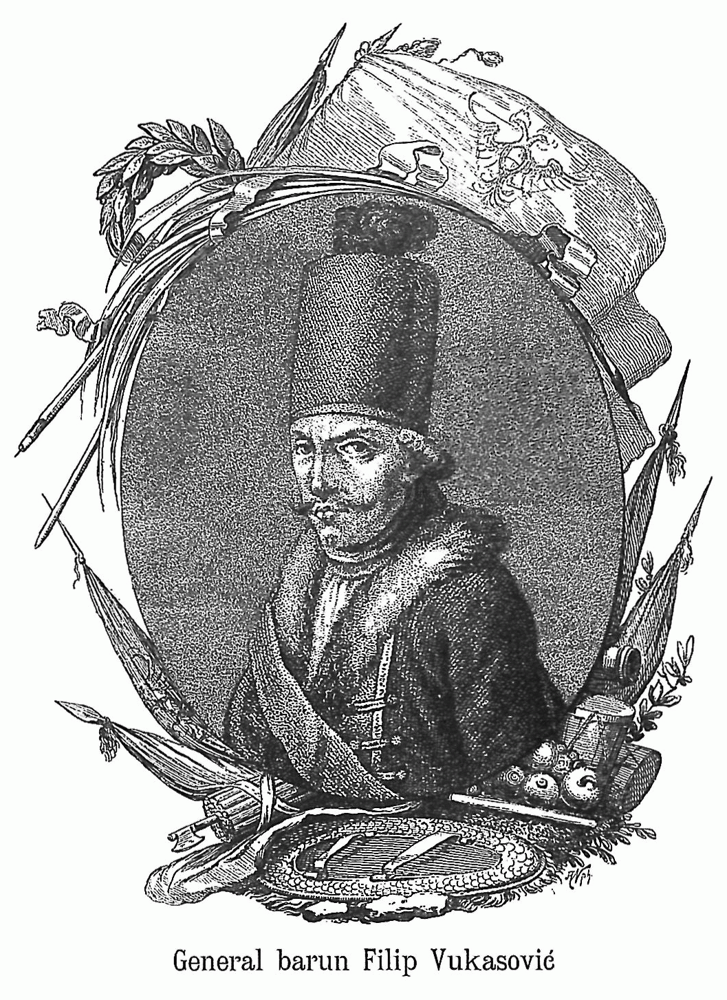 Josef Philipp von Vukassovich (1755 - 1809), Austrian general